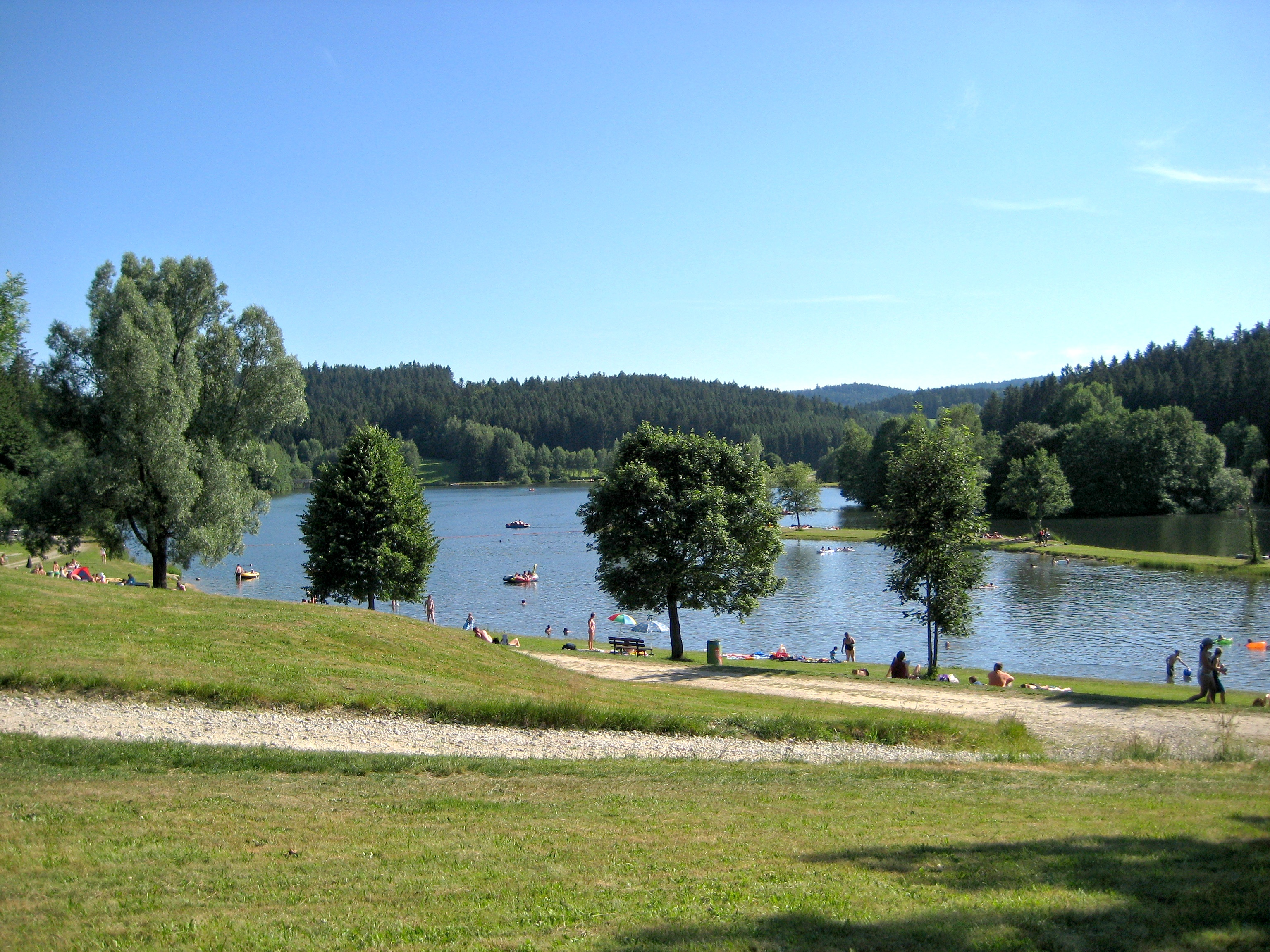 Rannasee near Wegscheid, district of Passau